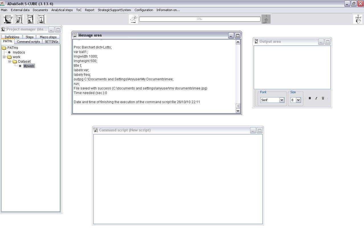 ADaMSoft Screen Shot (v3.13.4)